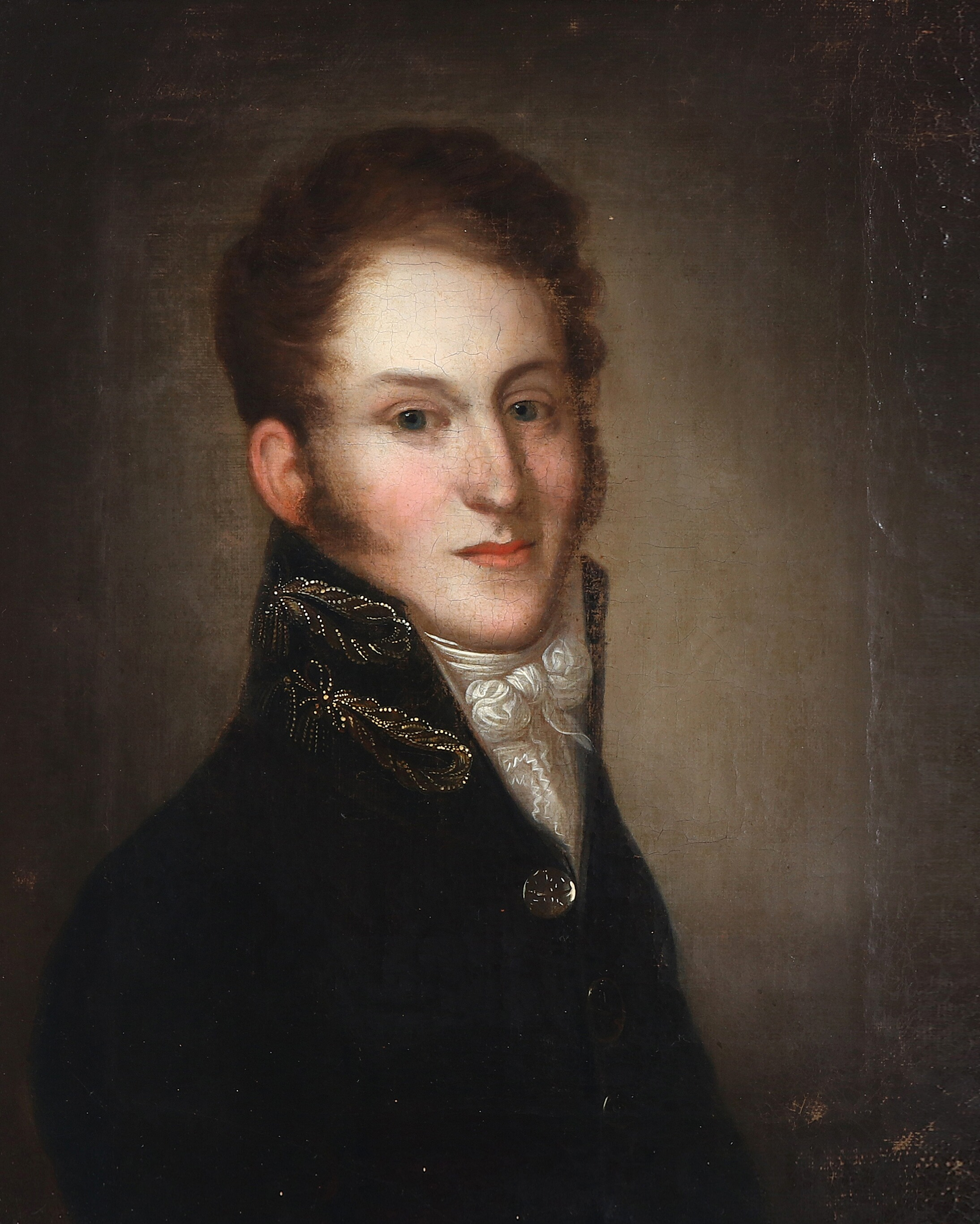 This painting is believed to depict the Danish naval officer Johannes Krieger (1773-1818). It is thought to have been painted in the early 1800s. Auctioned at Bruun-Rasmussen in January 2018 as lot no. 1803/141